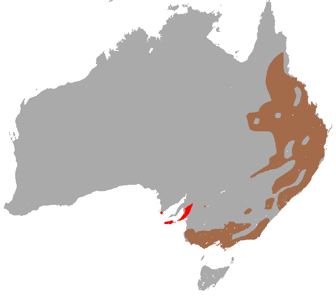 Koala (Phascolarctos cinereus) range (brown — native, red — introduced)